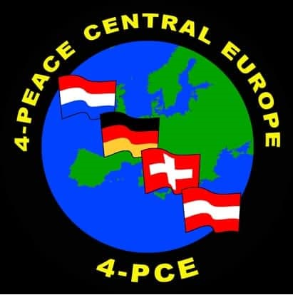 German